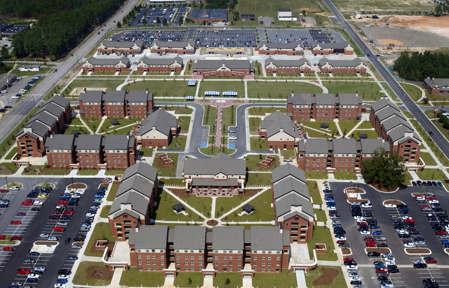 Fort Bragg, North Carolina, USA. Enlisted personnel barracks for the 1st Brigade. Coordinates: 35°8′19.81″N 79°1′53.61″W / 35.1388361°N 79.0315583°W